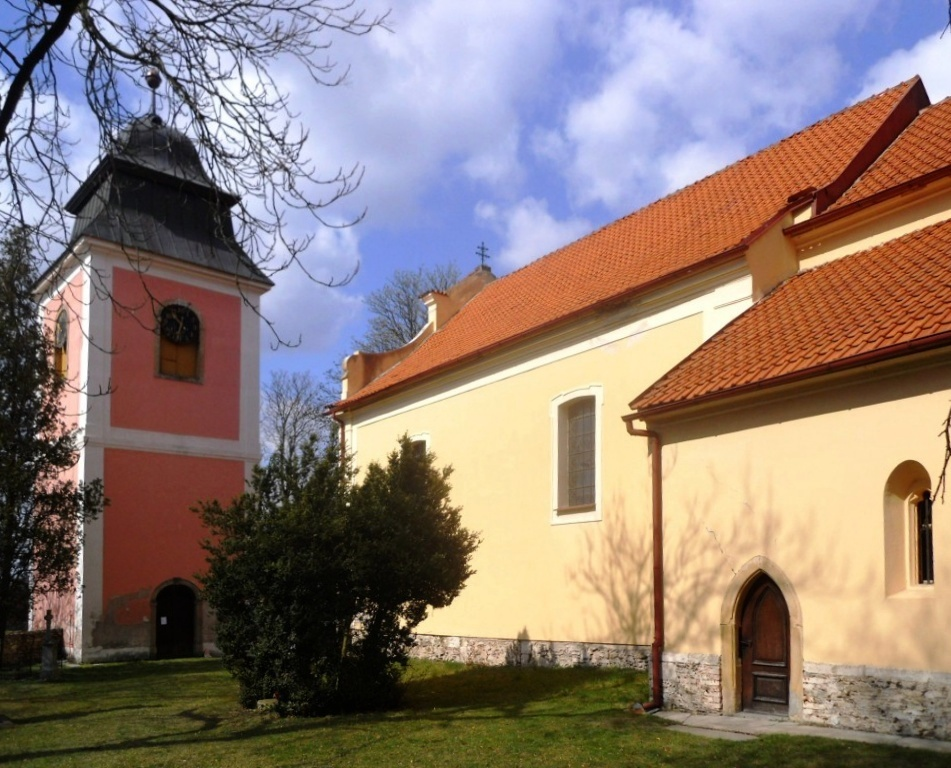 Velim, St Lawrence church from SE